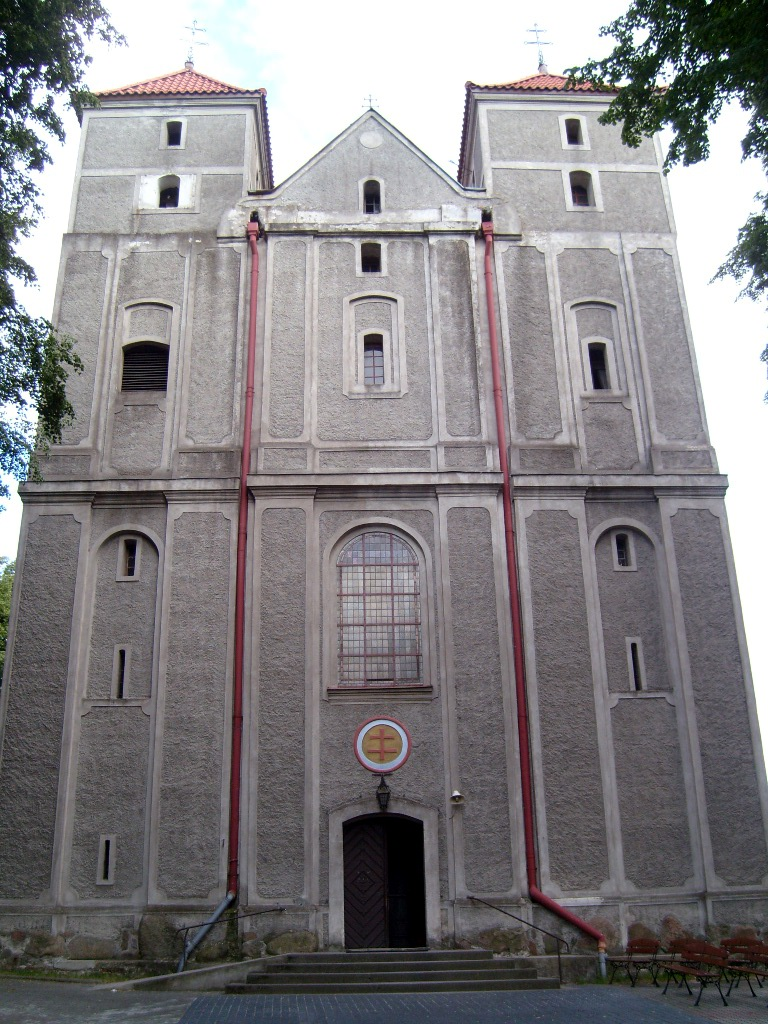 The church in Górzno, Poland